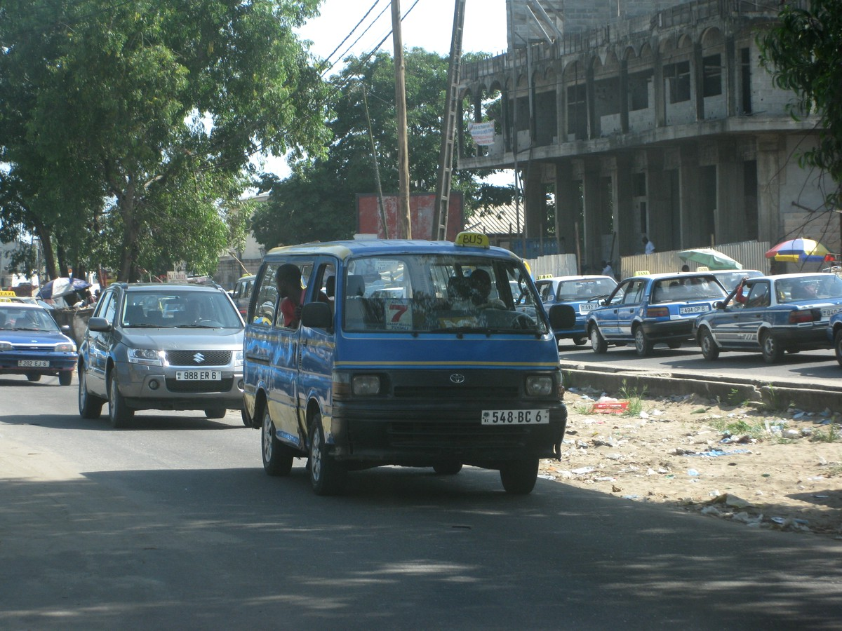 A glimpes of public transport & taxi in Pointe-Noire, Rep of the Congo. 中文（中国大陆）: 刚果（布）黑角市公交、出租一瞥